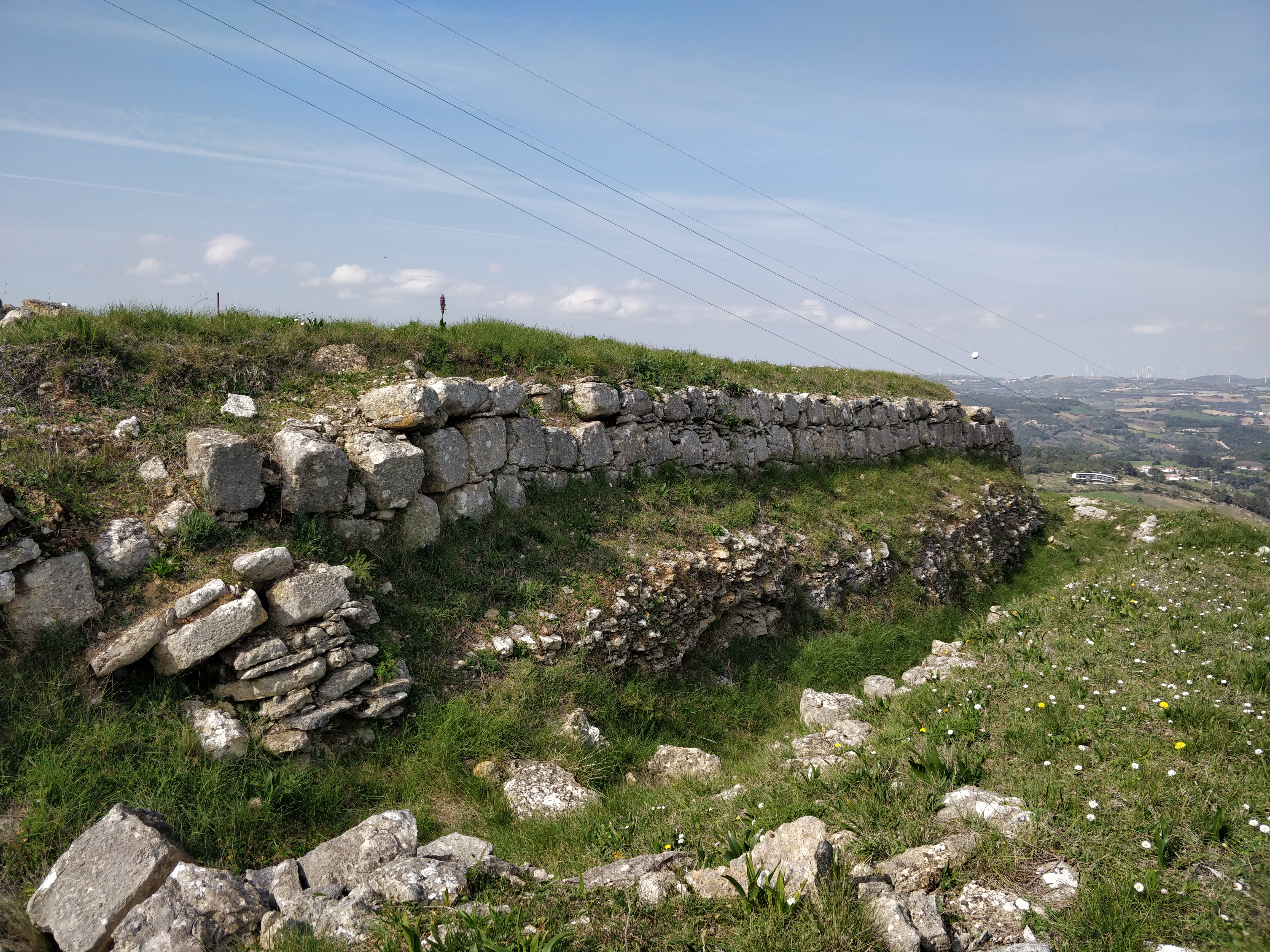 View of the Fort of Ribas, one of the forts in the Lines of Torres Vedras, northwest of Lisbon, Portugal